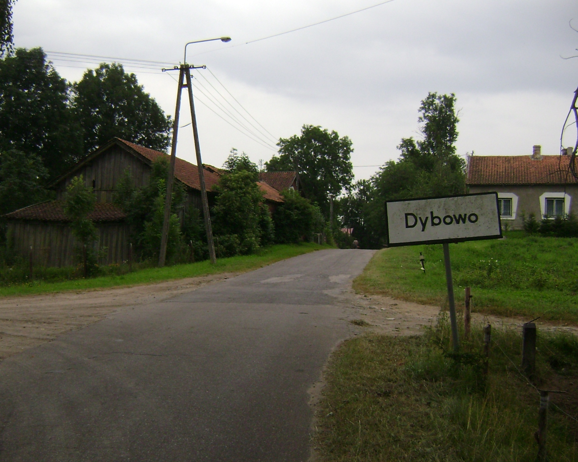 Poland. Gmina Pasym. Dybowo Village